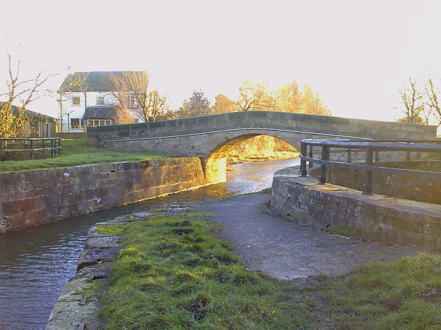 Paper House Bridge over Selby Canal by Paper House Farm in North Yorkshire